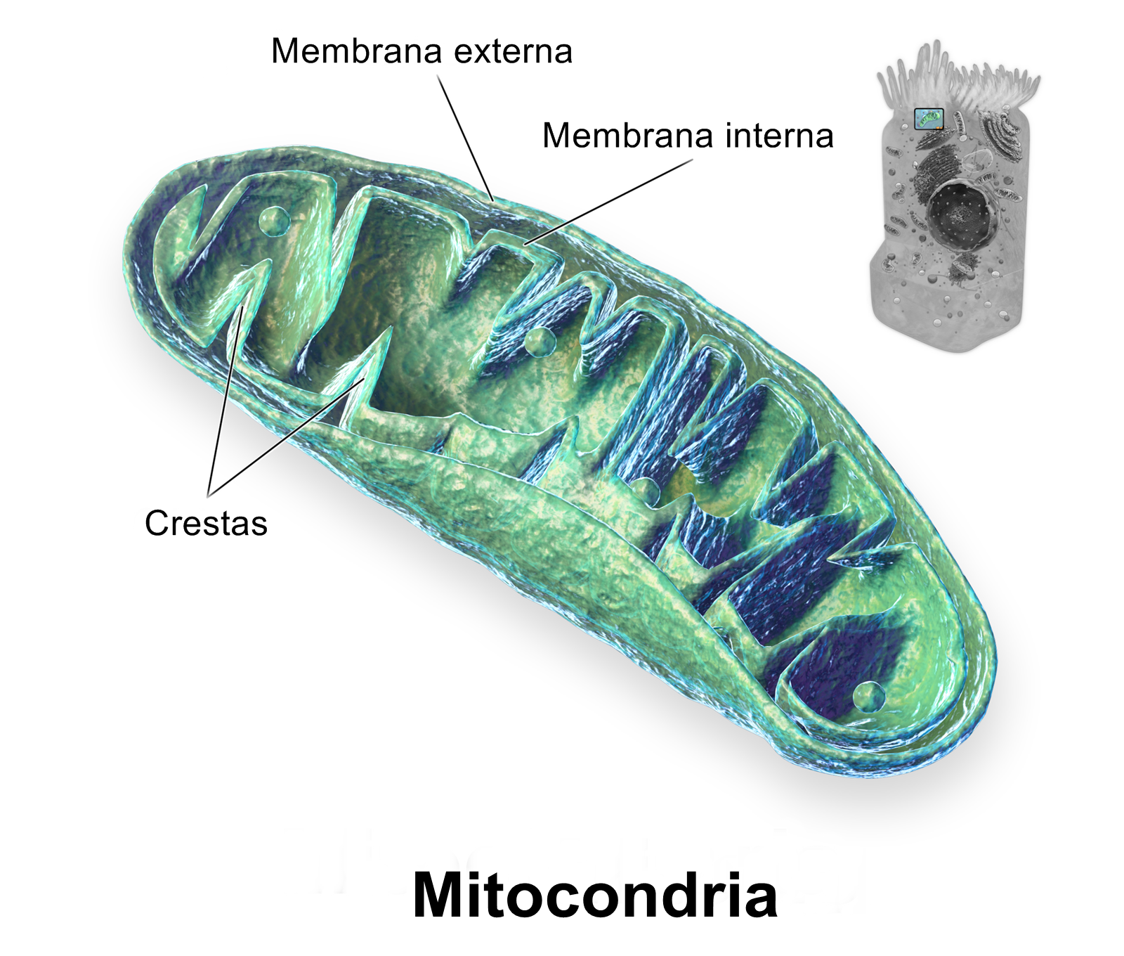 Mitochondria scheme indicanting its elements.